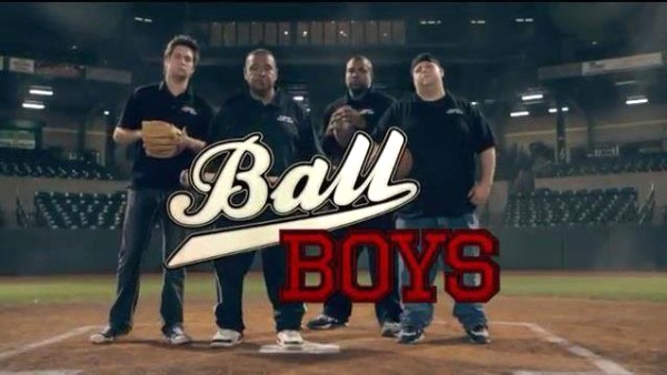 Cast of Ball Boys LP